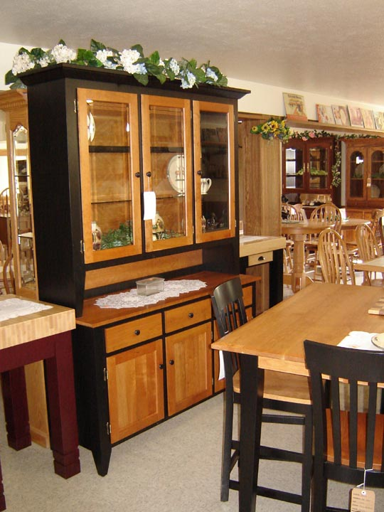 Ohio - Example of Ohio Amish Wood Craft - Farmerstown Furniture - 07-08-07 By:Mike Sharp.